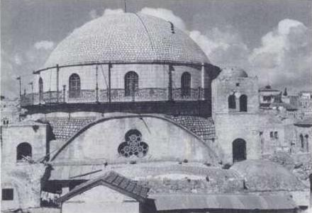 The Hurva Synagogue in the old city of Jerusaelm as it stood before 1948.